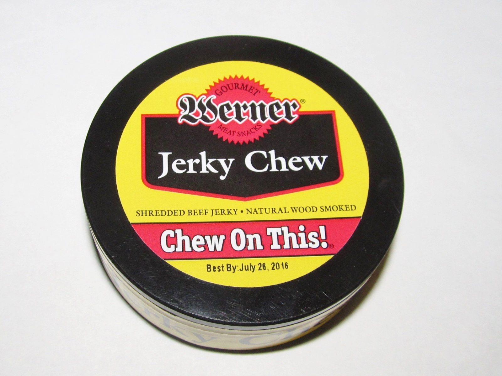 June 12th is National Jerky Day!